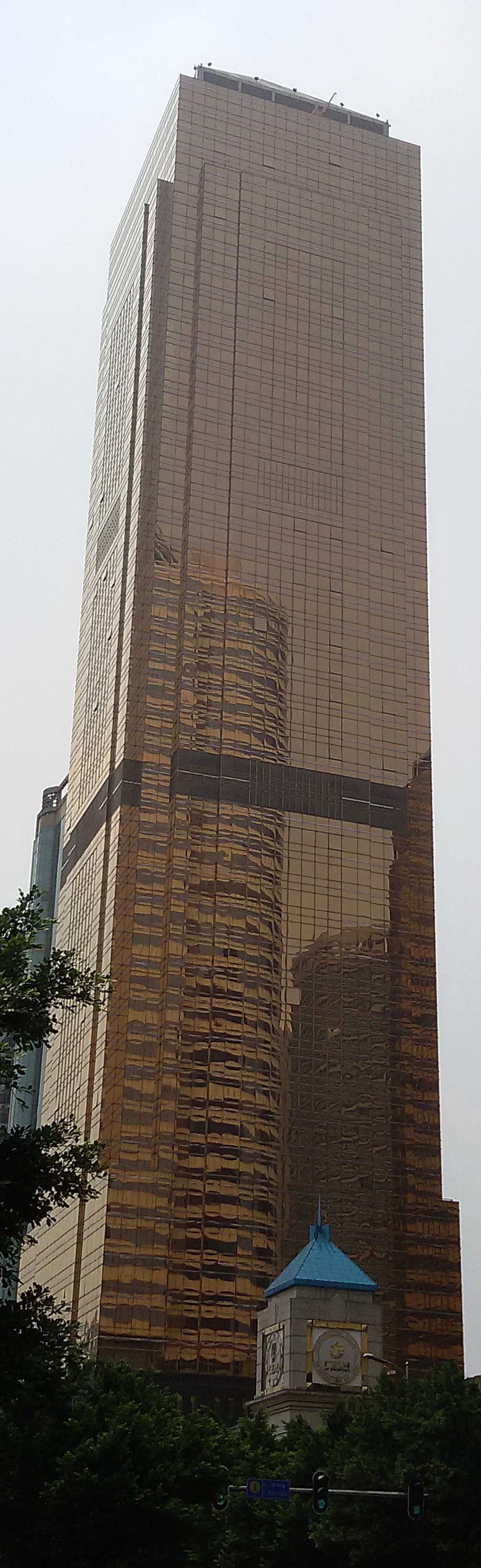 Metro Plaza in Guangzhou 粵語: 廣州嘅大都會廣場